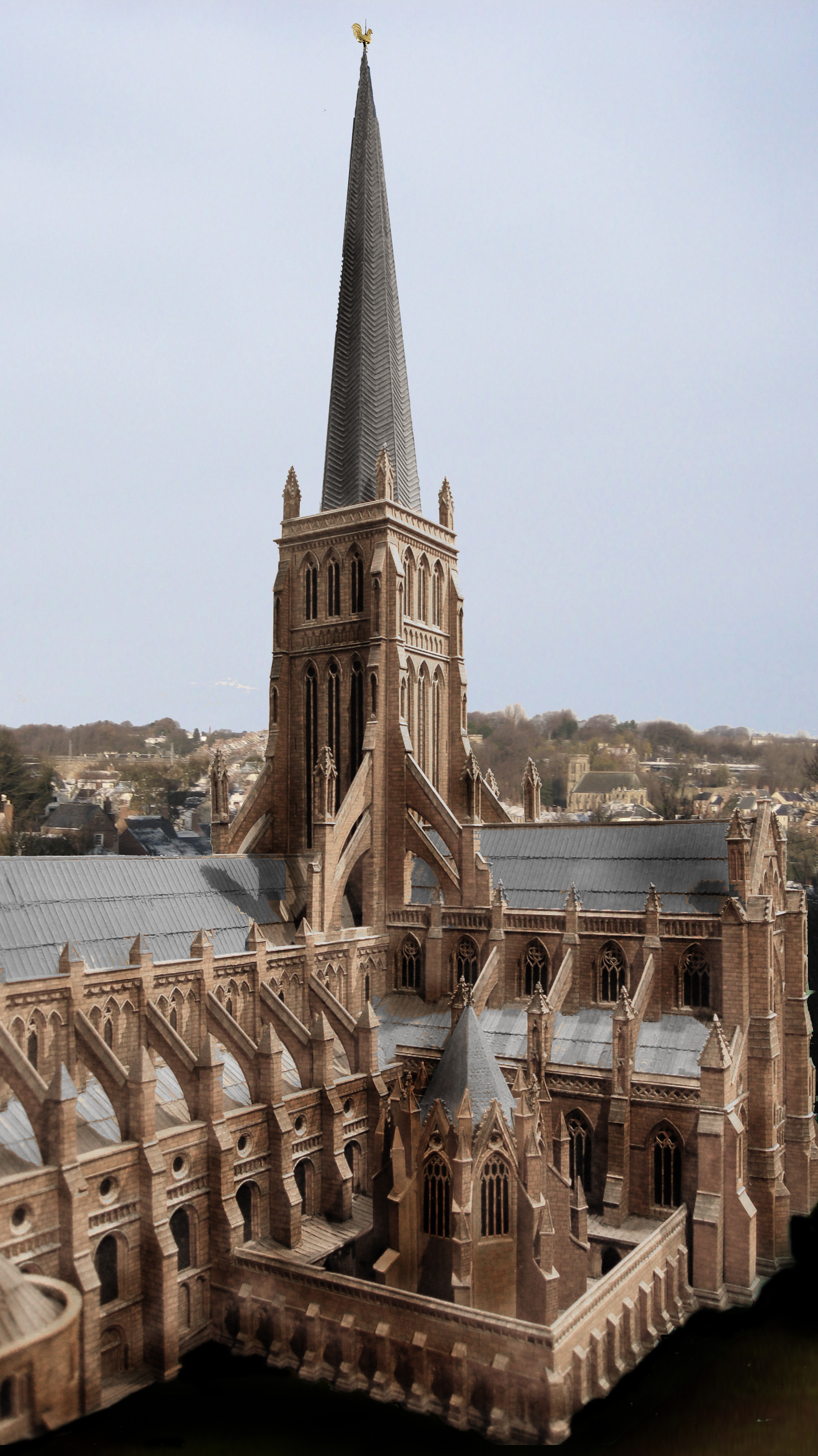 Model of the Old St. Paul's Cathedral in the Museum of London. This model was made for the White City Exhibition in 1908 by J. B. Thorpe. This is a photographic impression of the cathedral made using the model and my own photographs as a background (it's actually Durham!). I would advise against viewing it full size - although it's fairly convincing when small, it wouldn't fool anyone once it's seen full size. Bob Castle (talk) 20:14, 8 September 2010 (UTC)